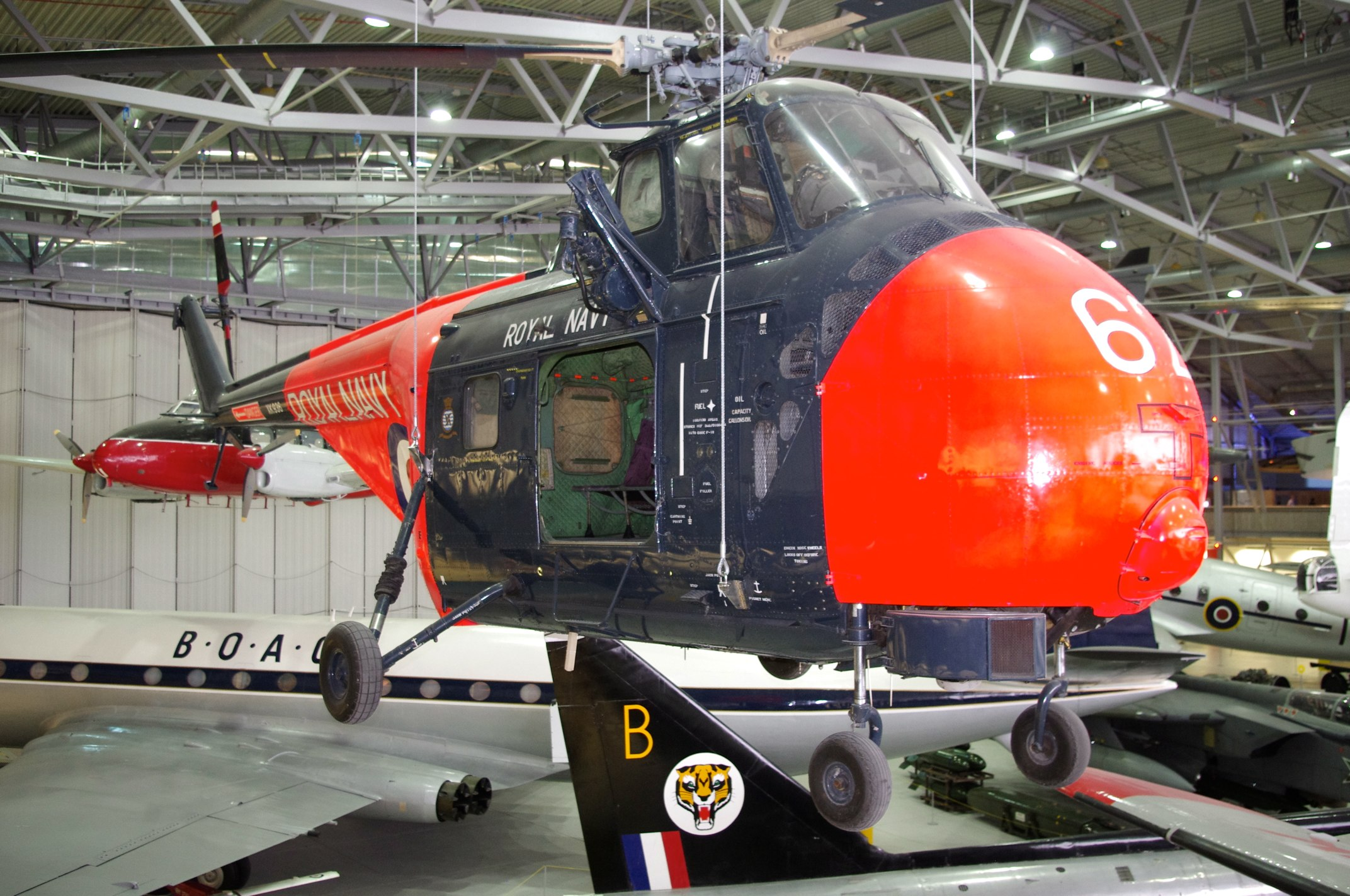 Imperial War Museum, Duxford